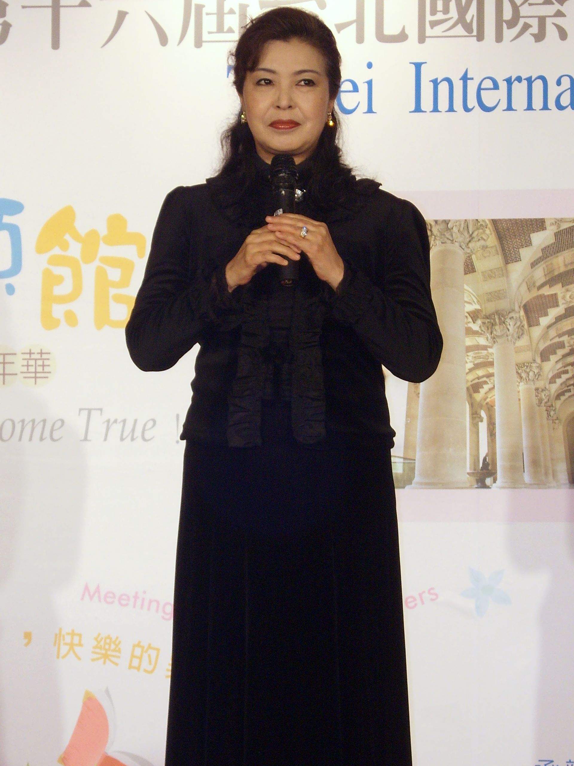 2008 Taipei International Book Exhibition - Opening Ceremony for Comic Pavilion: Riyoko Ikeda, author of The Rose of Versailles